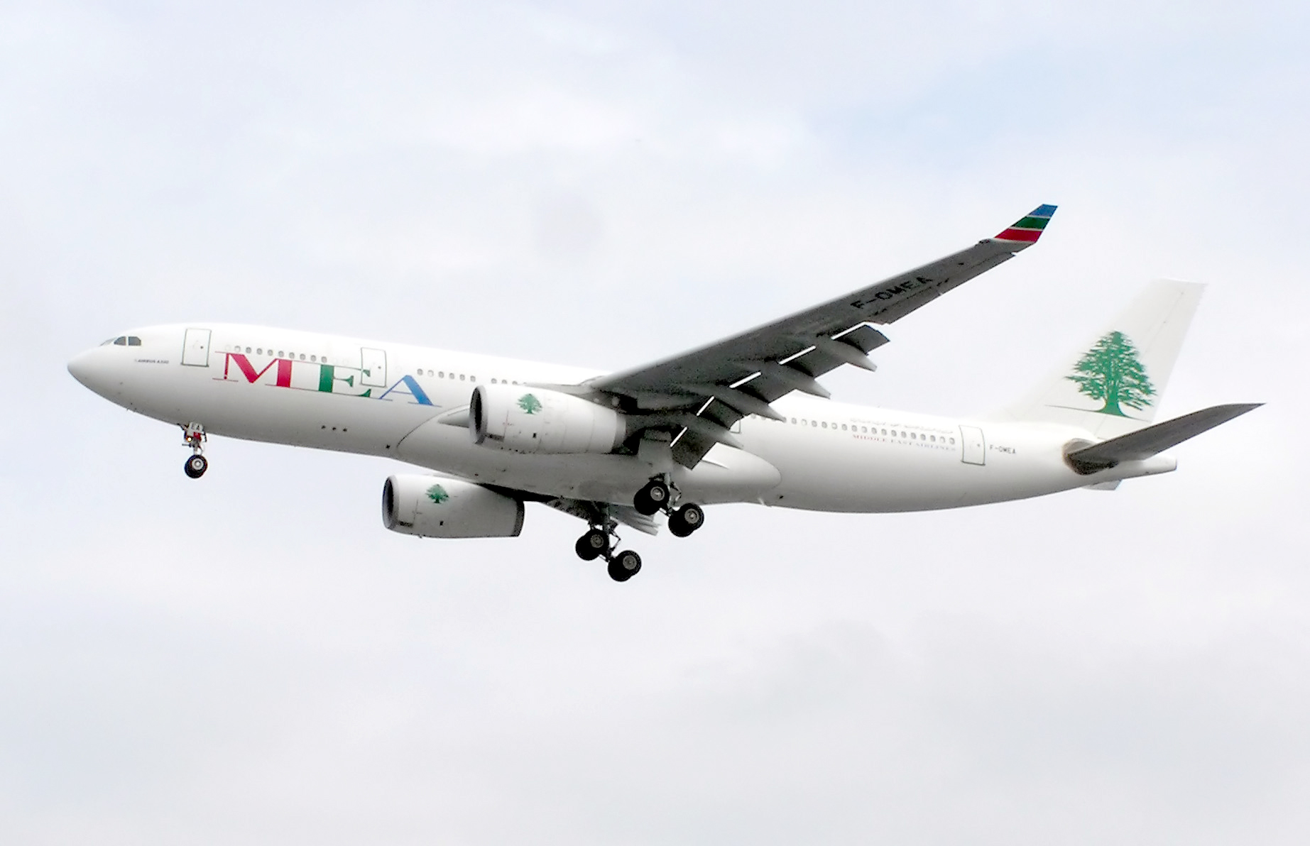 Middle East Airlines Airbus A330-200 (F-OMEA) landing at London Heathrow Airport, England.